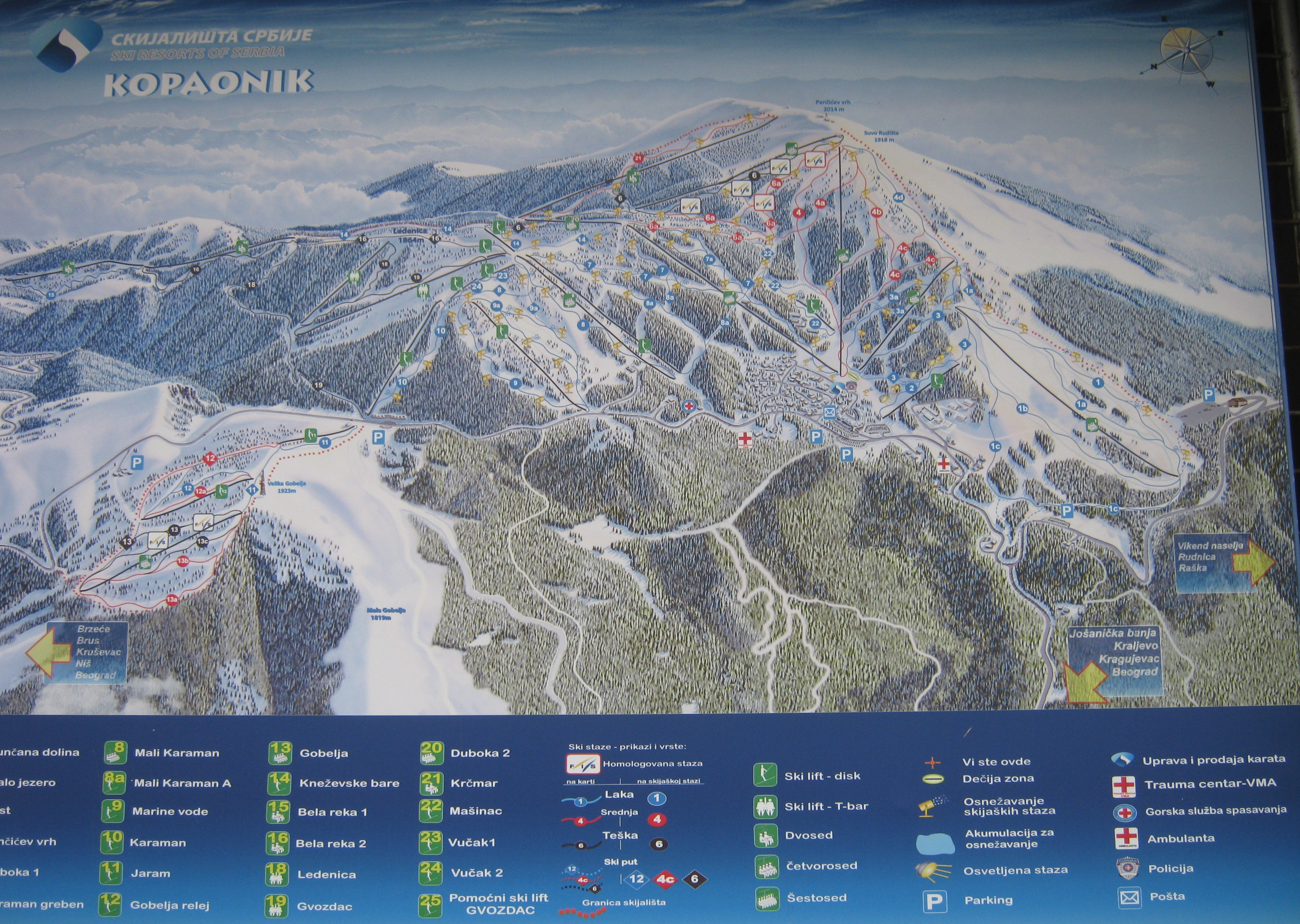 Kopaonik map